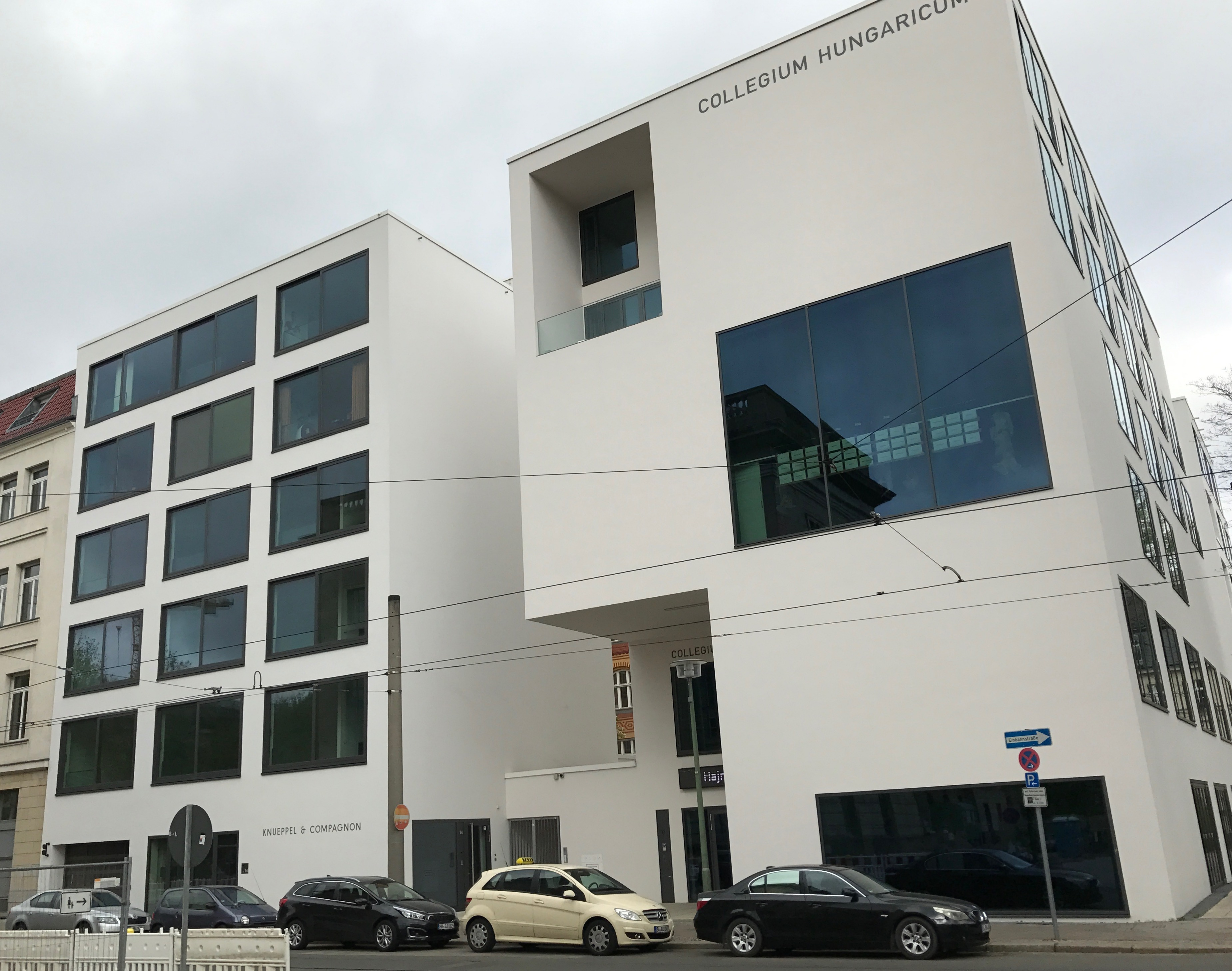 Building of the Collegium Hungaricum Berlin (2017)